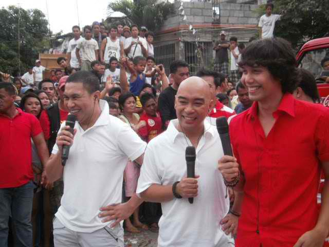 Jose Manalo (left) with Paolo Ballesteros and Wally Bayola on their Eat Bulaga! segment Juan for All, All for Juan